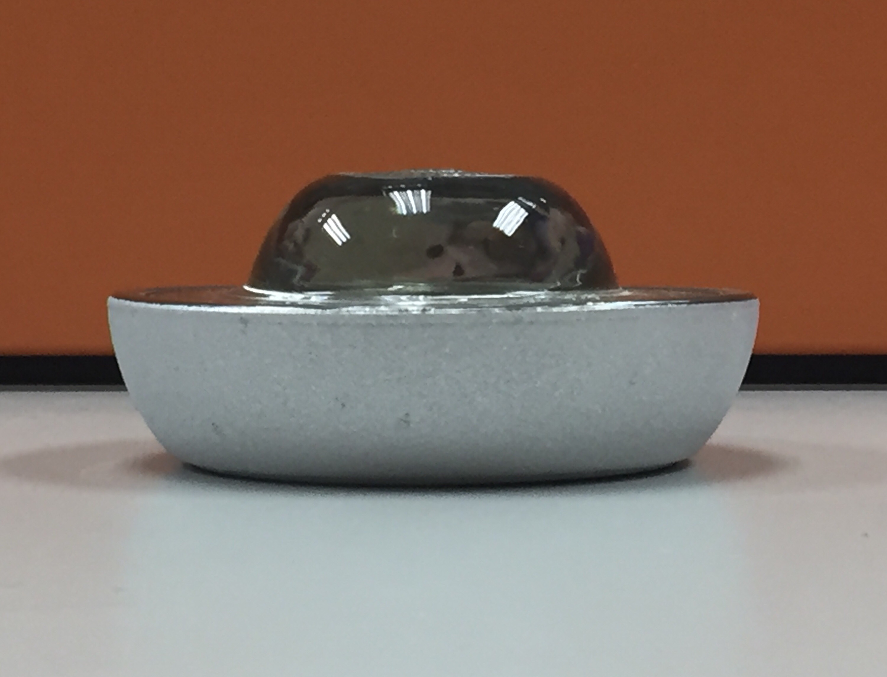 side view of a glass road stud: upper part = a dome, lower part = base with a reflective layer